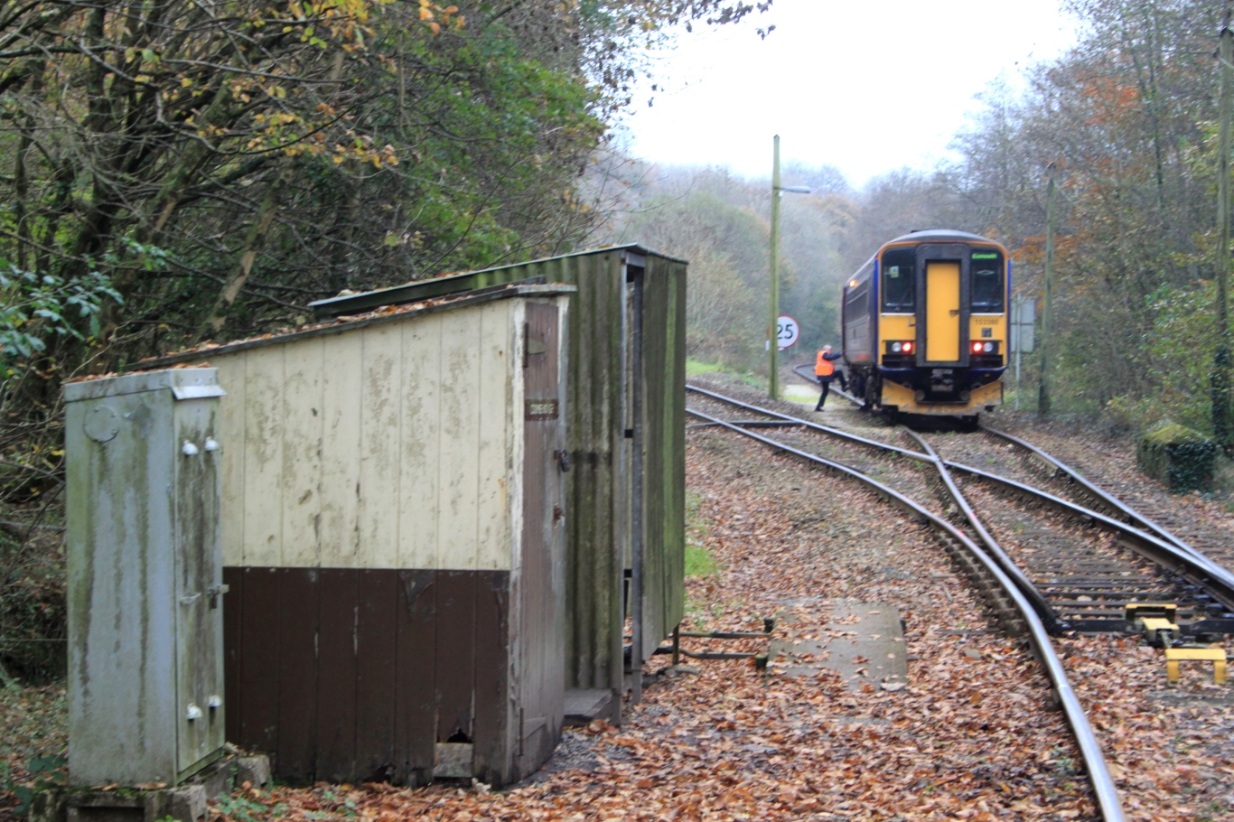 There is no signal box at Coombe Junction on the Looe Valley Line, so the guard has to operate the points. he has now set them back for the 'main line' up to Liskeard (on the left behind the ground frame hut) so climbs back aboard First Great Western's 153380 for the journey down to Looe.